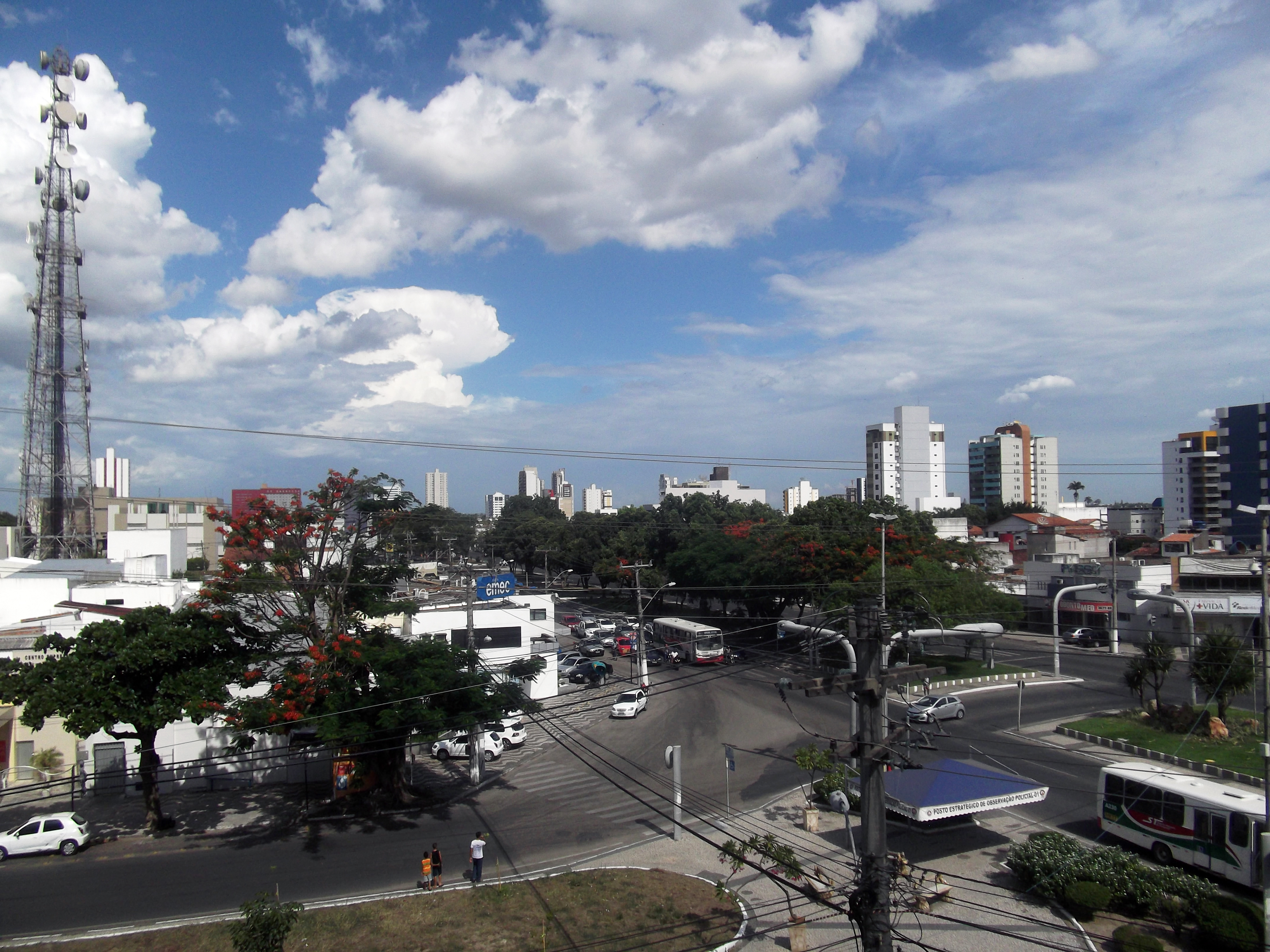 Another part from Feira de Santana downtown. Picture registred from Feira Palace Hotel window. On the corner with Avenida Maria Quitéria and Avenida Getúlio Vargas, Ponto Central Neighbourhood.